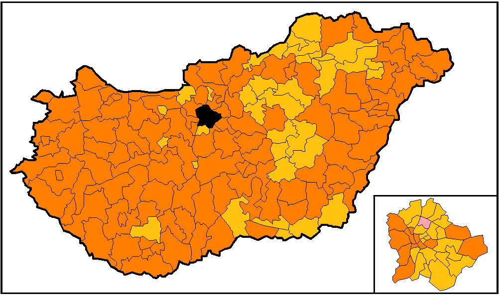 2010 Hungarian parliamentary election, first round: first-placed candidates by parties in the single-seat constituencies: ██ = mandate won by Fidesz-KDNP(119) ██ = first placed candidate, Fidesz-KDNP (56) ██ = first placed candidate, MSZP (1)